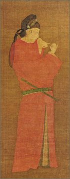 Kenpon chakushoku kyūjo zu (絹本著色宮女図) or den kan'yaō zu (伝桓野王図). Hanging scroll, color on silk. The scroll has been designated as National Treasure of Japan in the category paintings.